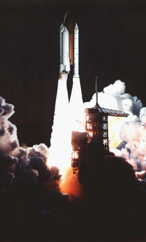 An artists rendering of the Shuttle-C being launched